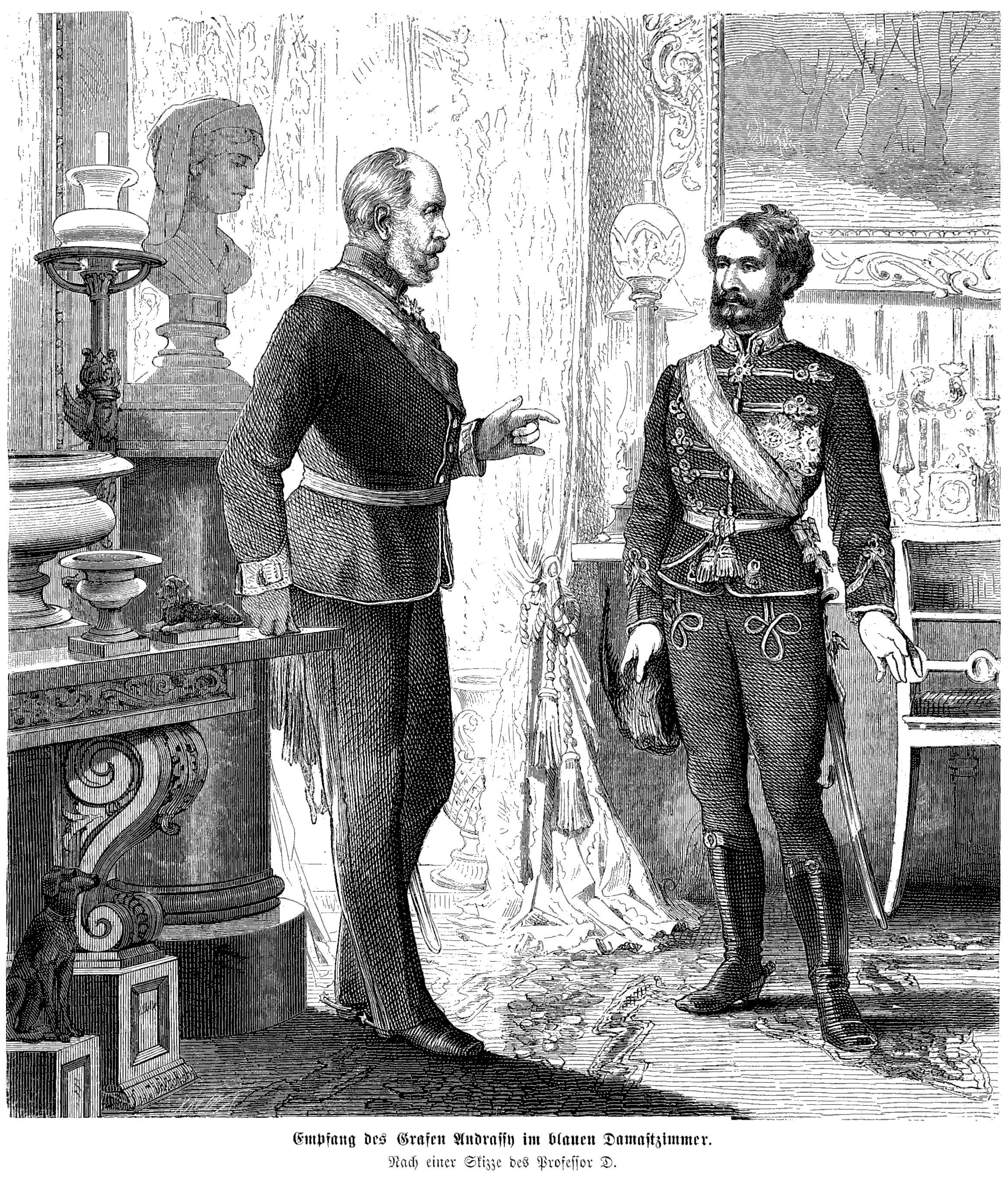 caption: "Empfang des Grafen Andrassy im blauen Damastzimmer. Nach einer Skizze des Professor D."